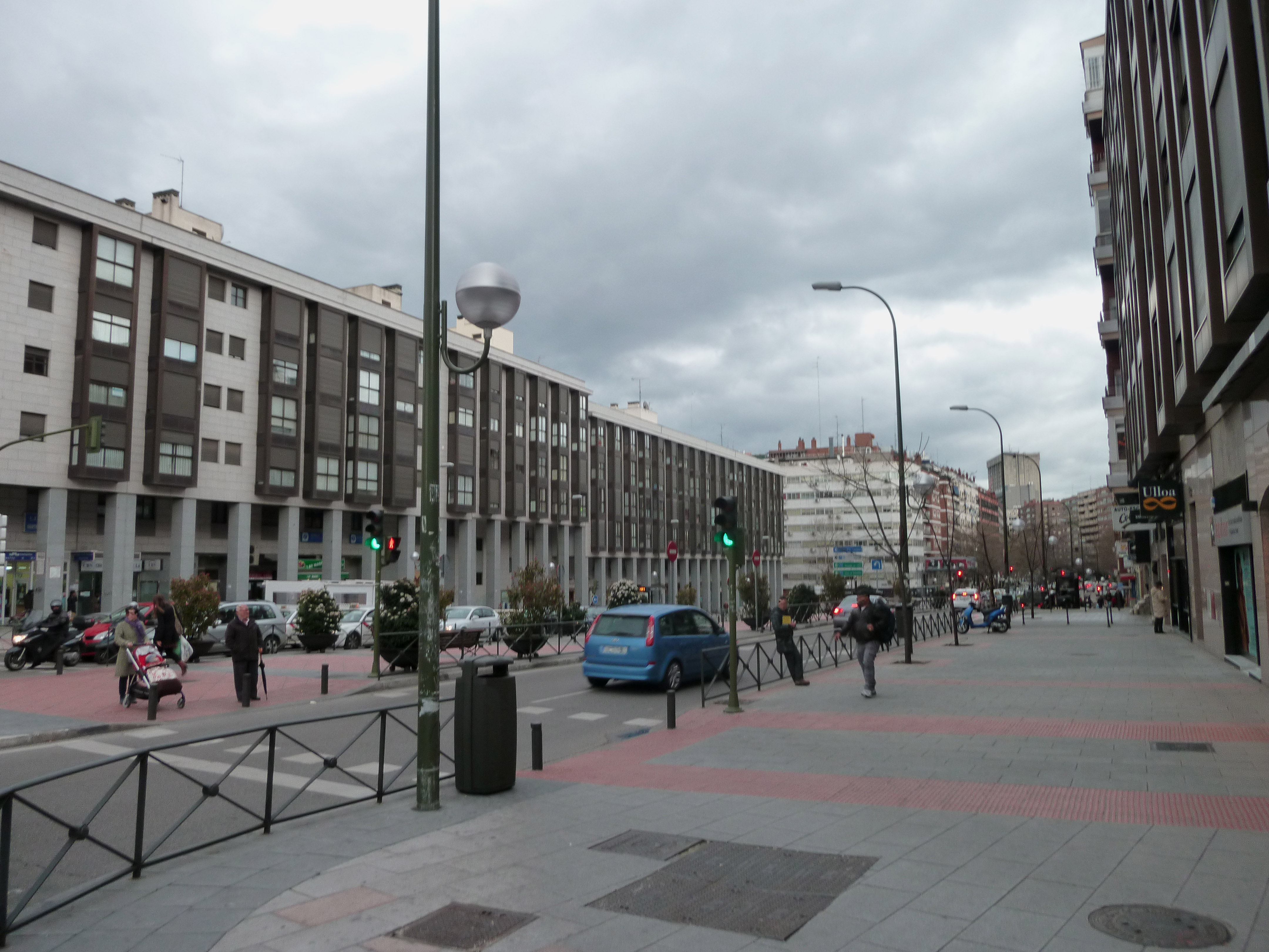 View from Calle de Sor Ángela de la Cruz (street) in Tetuán district in Madrid (Spain).